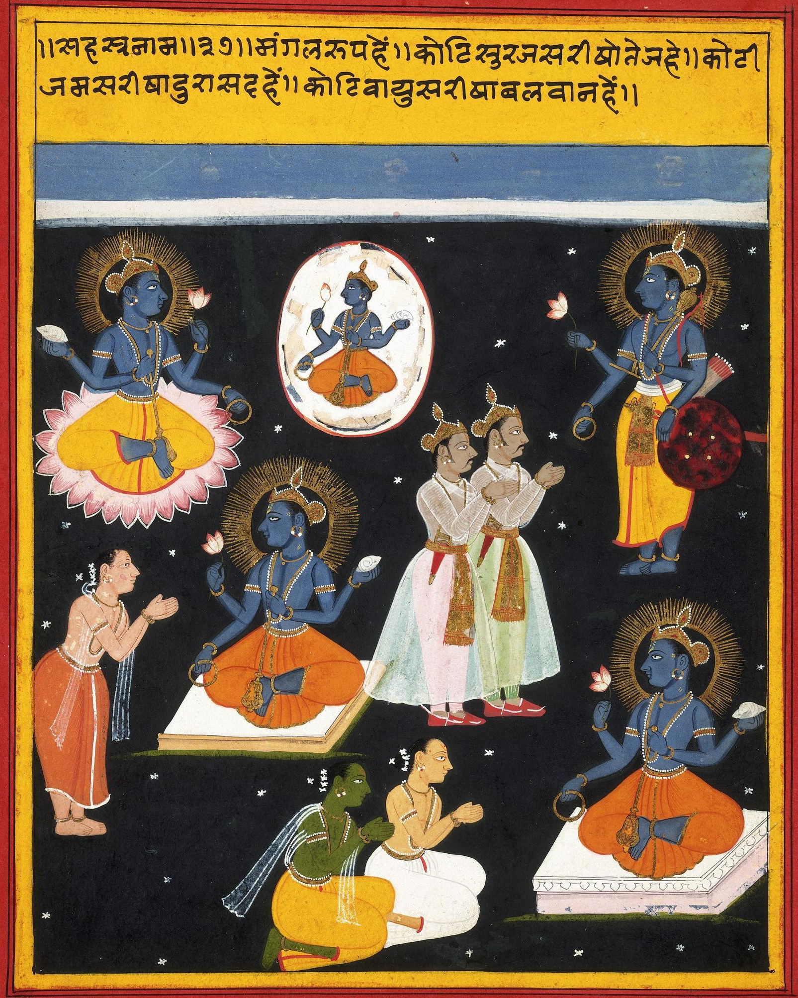 Vishnu sahasranama manuscript Vishnu being worshipped in his five forms, including Rama and Lakshmana. Mewar, India.